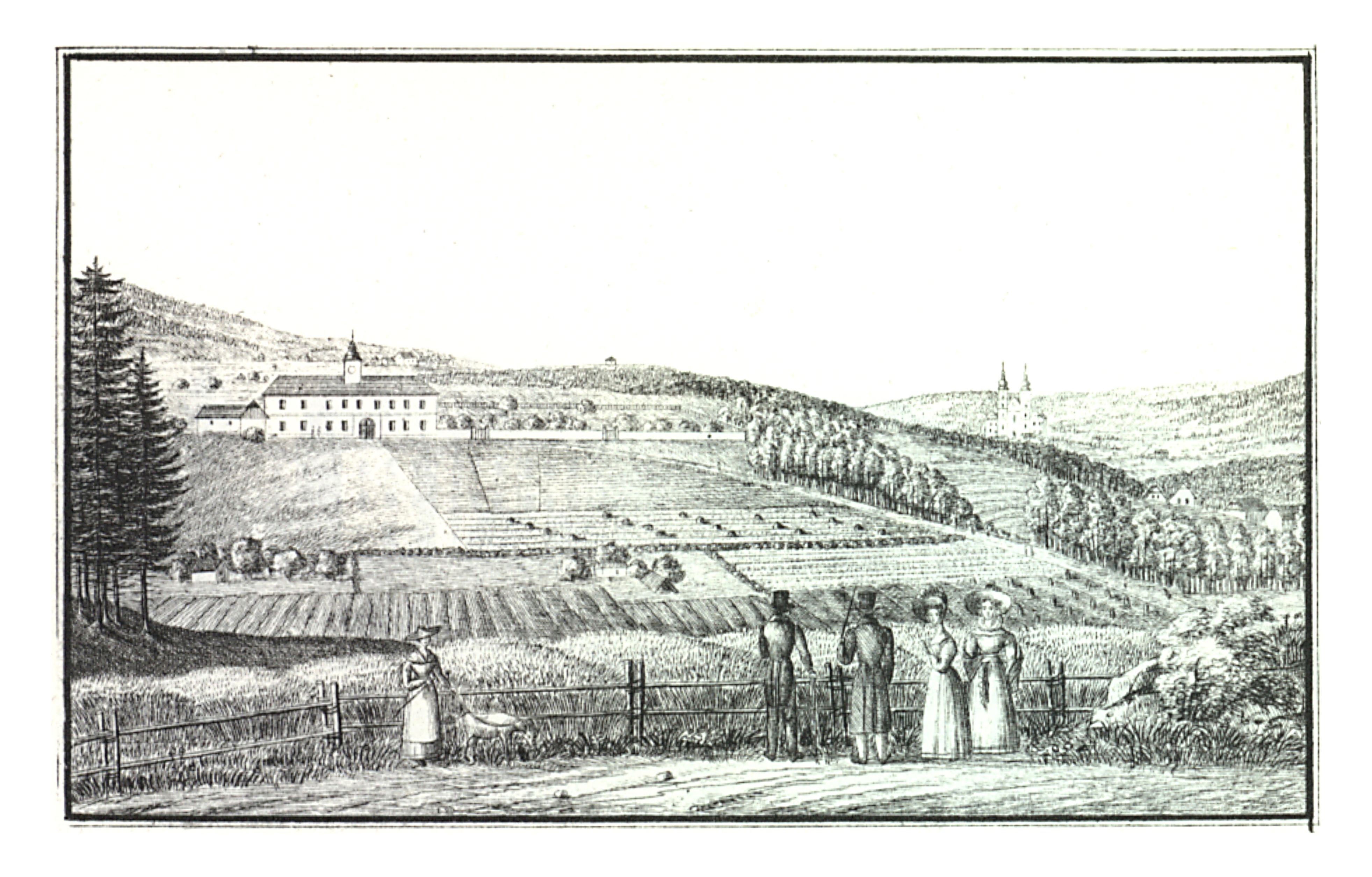 J. F. Kaiser - lithographirte Ansichten der Steyermärkischen Städte, Märkte und Schlösser, Graz 1824-1833 Joseph Franz Kaiser (1786–1859) Alternative names J. F. KaiserDescriptionAustrian printer and editorDate of birth/death 11 March 1786 19 September 1859Location of birth/death Graz (Styria) GrazAuthority control : Q1499963 VIAF: 30629353 ISNI: 0000 0000 3083 0153 LCCN: n87141671 GND: 129880159 NLP: A24960305 WorldCat creator QS:P170,Q1499963 . Scanprojekt Community Projektbudget 2012 This scan or this PDF-file was created within the GLAM-project Bookscanning, supported by Wikimedia Germany and Wikimedia Austria as a part of the community-project to capture books, documents and pictures which are not eligible to copyright or for which the copyright has expired. This document describes or depicts an object which is located in Austria today. Send requests for uncompressed scans to Hubertl. This work is in the public domain in its country of origin and other countries and areas where the copyright term is the author's life plus 100 years or less. You must also include a United States public domain tag to indicate why this work is in the public domain in the United States. This file has been identified as being free of known restrictions under copyright law, including all related and neighboring rights.